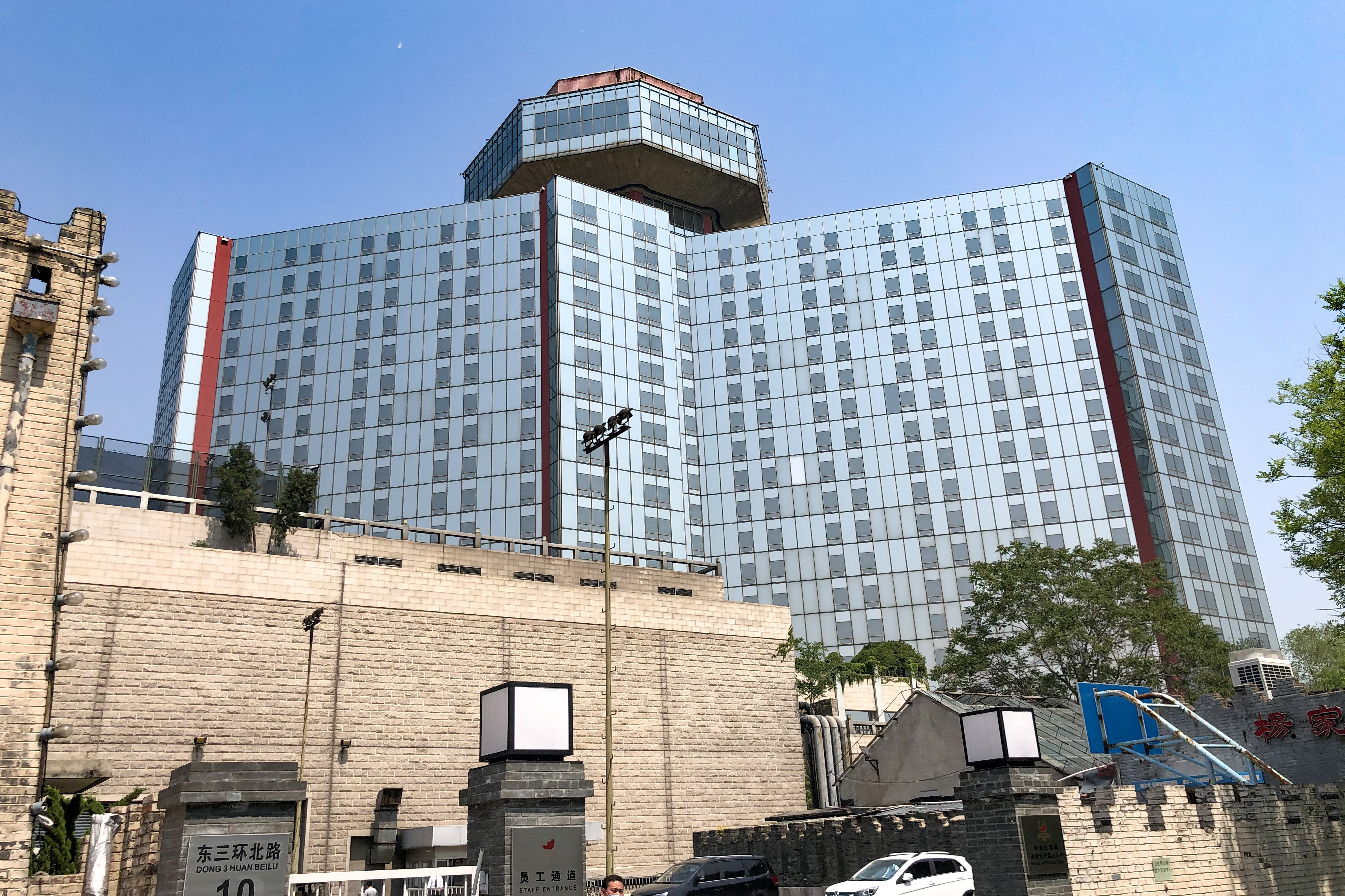 First one with glass curtain walls...